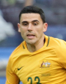 Cropped from for his page